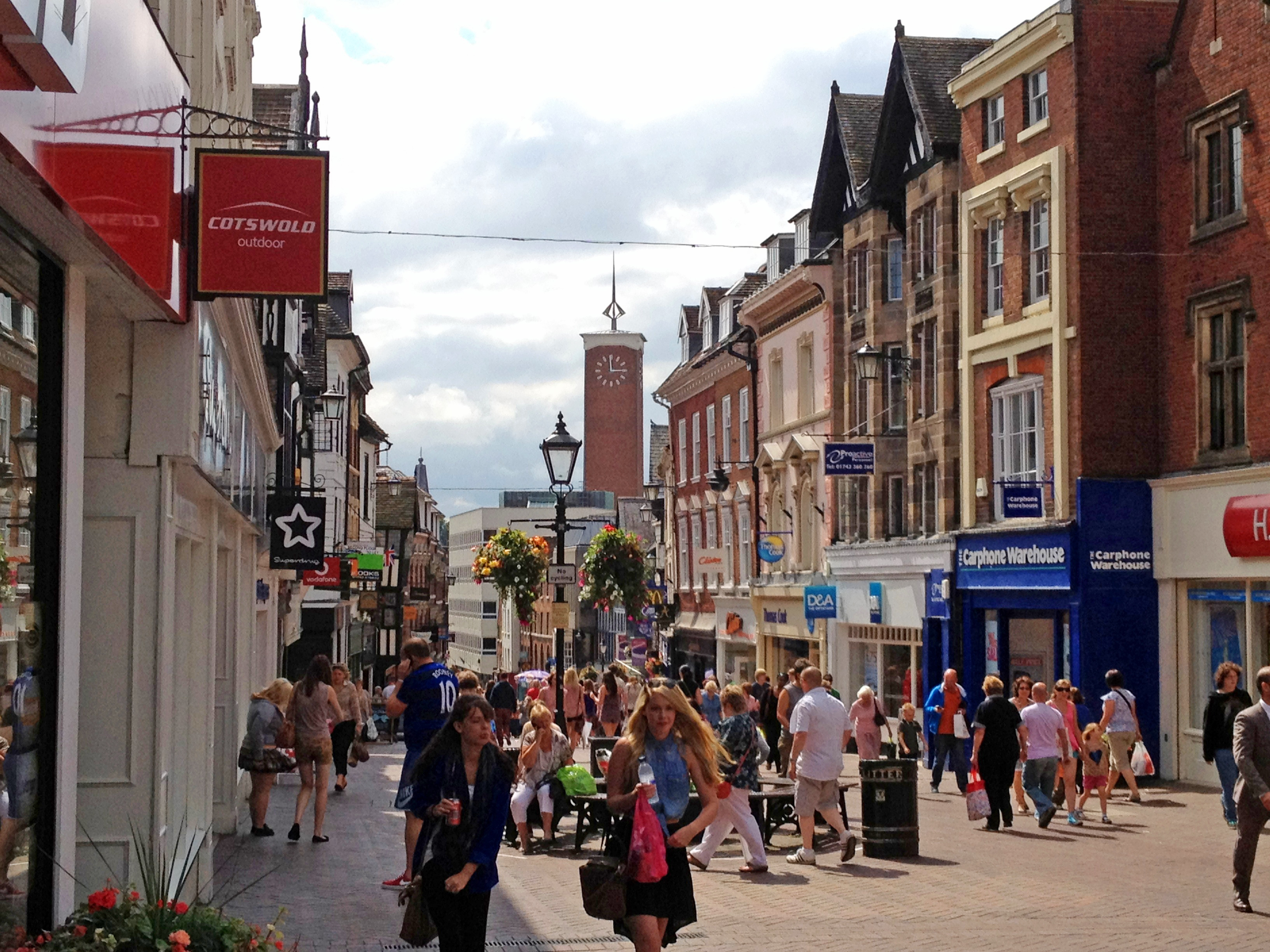 Pride Hill, Shrewsbury